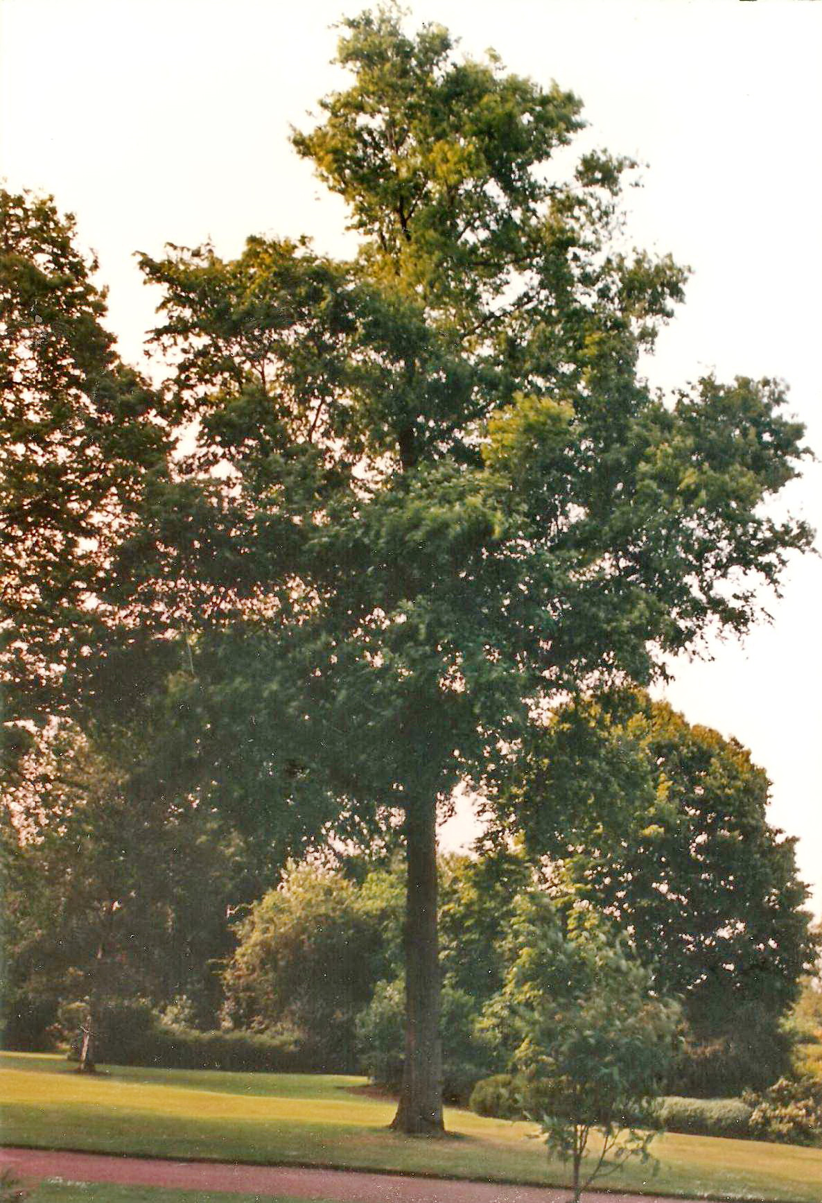 Edinburgh RBG, Elm Collection 1989, Specimen Tree 3; Habit